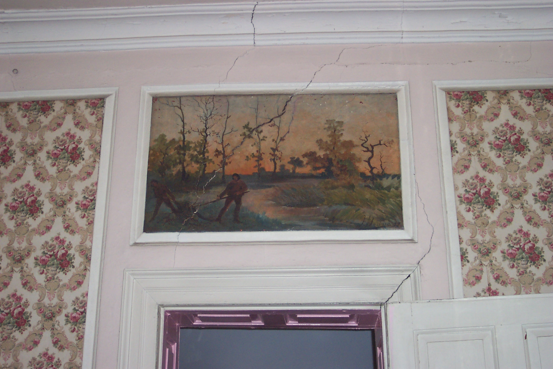 A painting mounted above a doorway in Bostiwck. This Adamesque house was built in 1746 and has Flemish-bond brickwork. This site was selected for 2012 Endangered Maryland.